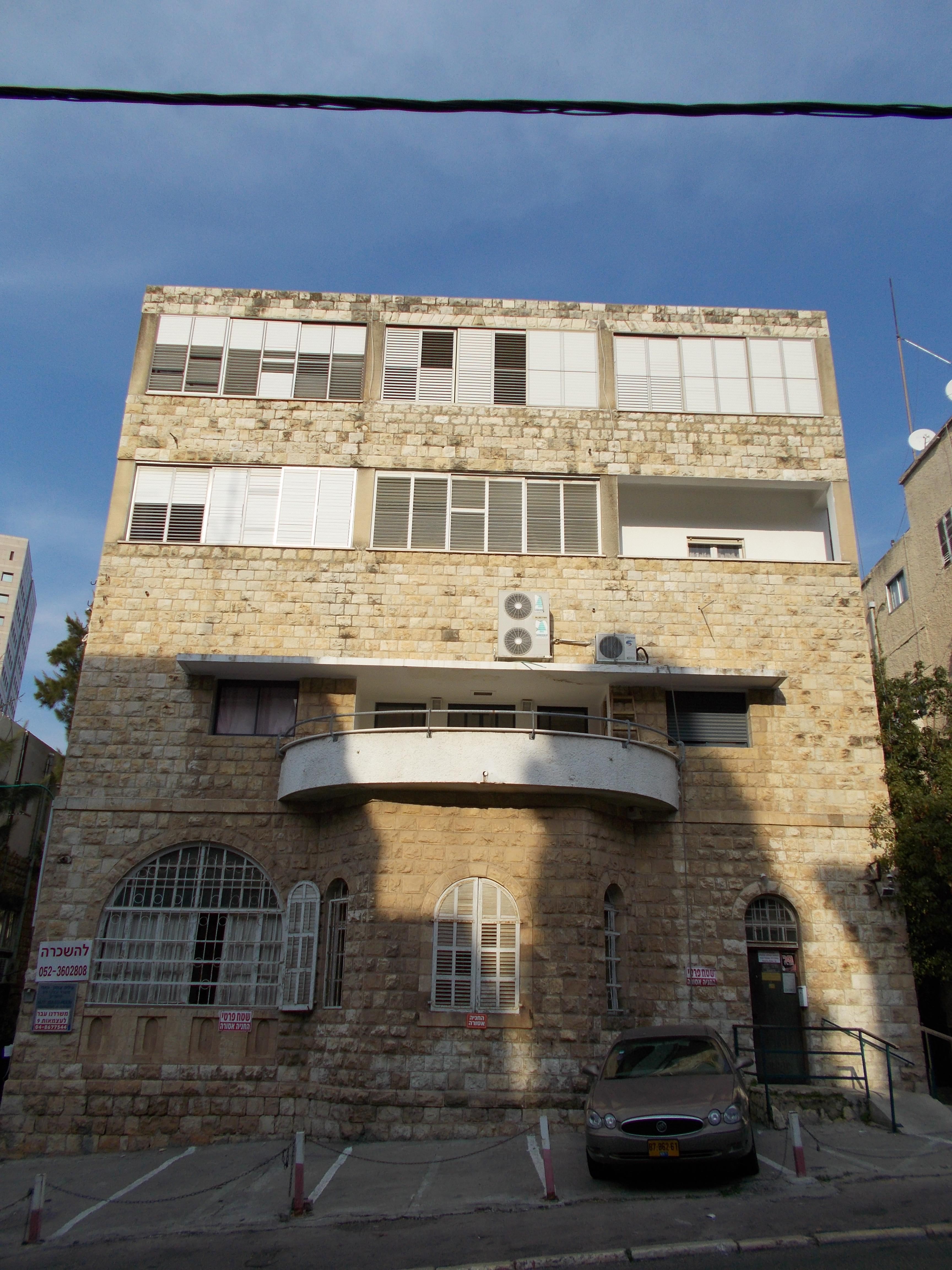 Dr. Esther Ginsberg Krauze Shimkin house in Ahad Ha'am street No.12, Haifa, Israel.